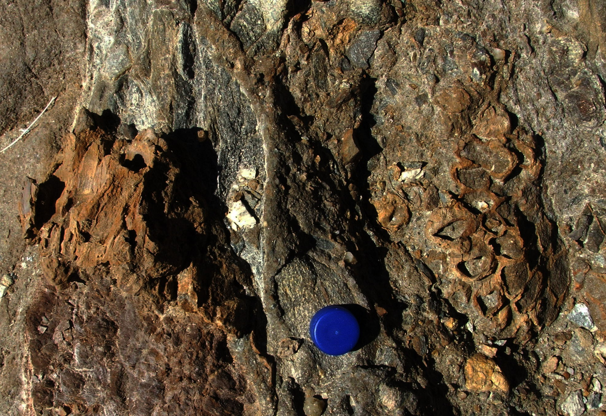 Photographed in the Rambla de la Sierra, Tabernas basin, Spain. As studied by Doyle (1997).[1] Left: longitudinal section; Right: transverse section. Bottle cap is 2cm diameter. ↑ Doyle, P.; Mather, A.E.; Bennett, M.R.; Bussell, A. (1997). "Miocene barnacle assemblages from southern Spain and their palaeoenvironmental significance". Lethaia 29: 267-274.